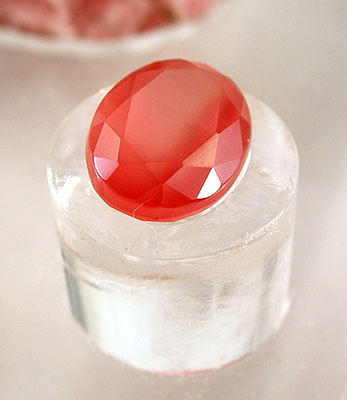 Rhodochrosite Locality: Capillitas Mine, Andalgalá, Catamarca, Argentina (Locality at ) Size: small cabinet, 7.1 x 3.6 x 3.5 cm Rhodochrosite (SET) GEM: 1.0 x 0.8 x 0.5 cm (3.55 carats) At one time, rhodochrosite stalagtites from Argentina were readily available at rocks shows around the country. Today, good ones with little damage and rich color are quickly disappearing from the market. This stalagtite has what you want as a specimen collector - very nice sharp crystal terminations along the outside. Inside, the stalagtite has nice richly colored, concentric growth lines, typical of the better pieces from this area. Some bruising present along the outside of the stalagtite on rear faces, but it displays well and is much better than what we normally see around. I recently found a nice cut stone for the locality - unusual because this material is mostly 100% opaque and a stone this large, with such translucency, is rare. The stone is valued at $150 (my cost) or more only but is a nice accent!